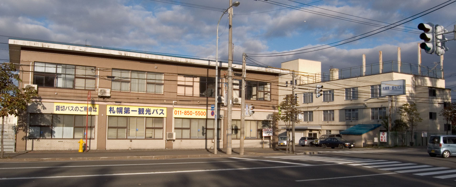 Office of Sapporo Daiichi Kanko Bus, Sapporo, Hokkaido, Japan